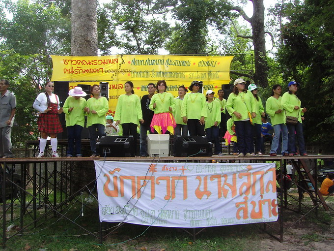 Village Mor Lum Sing, participants not identifieable